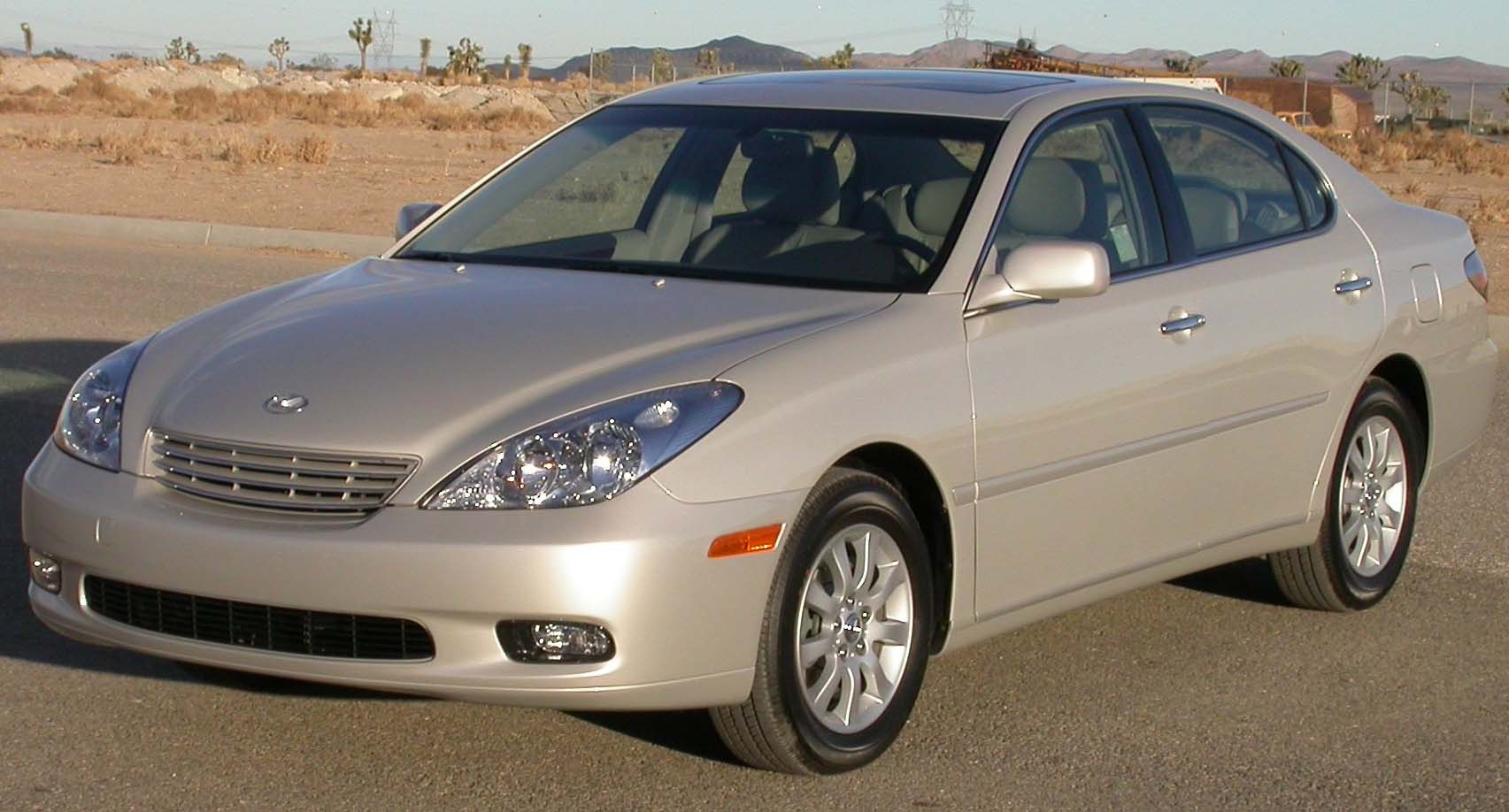 2004 Lexus ES330 photographed in USA.